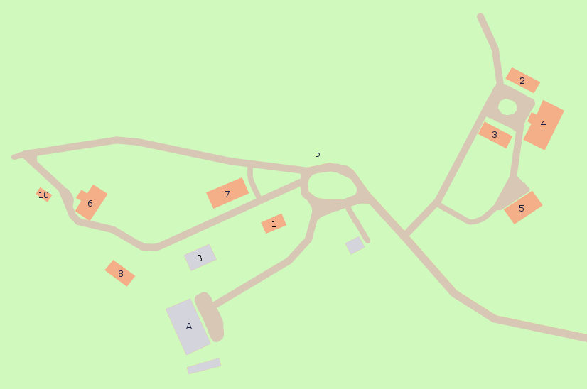 Map over Vännäs läger, Sweden. Orange means a listed building. 1.Officer Conductor building. 2.Officer's quarters, 3.Officer's quarters, 4.Sutler's building, 5.NCO building, 6.Infirmary, 7.Camp hut, 8.NCO Fair, 10.Dead-house A.Hangar, B.Repository